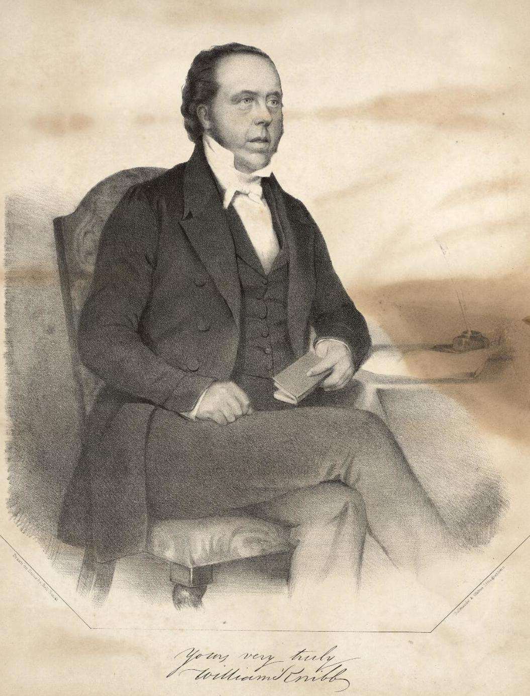 A portrait from the Welsh Portrait Collection at the National Library of Wales. Depicted person: William Knibb – British missionary